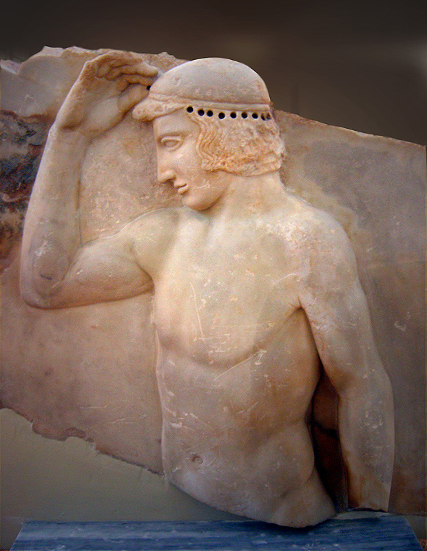 Relief, National Archaeological Museum of Athens.